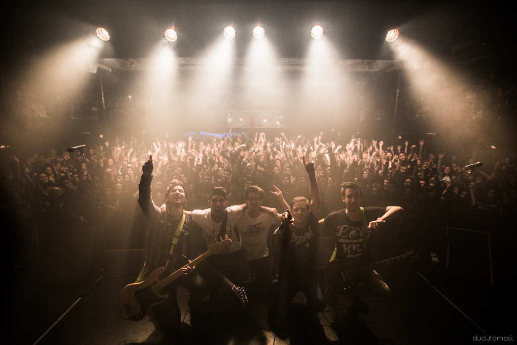 DENY - La trastienda 2013